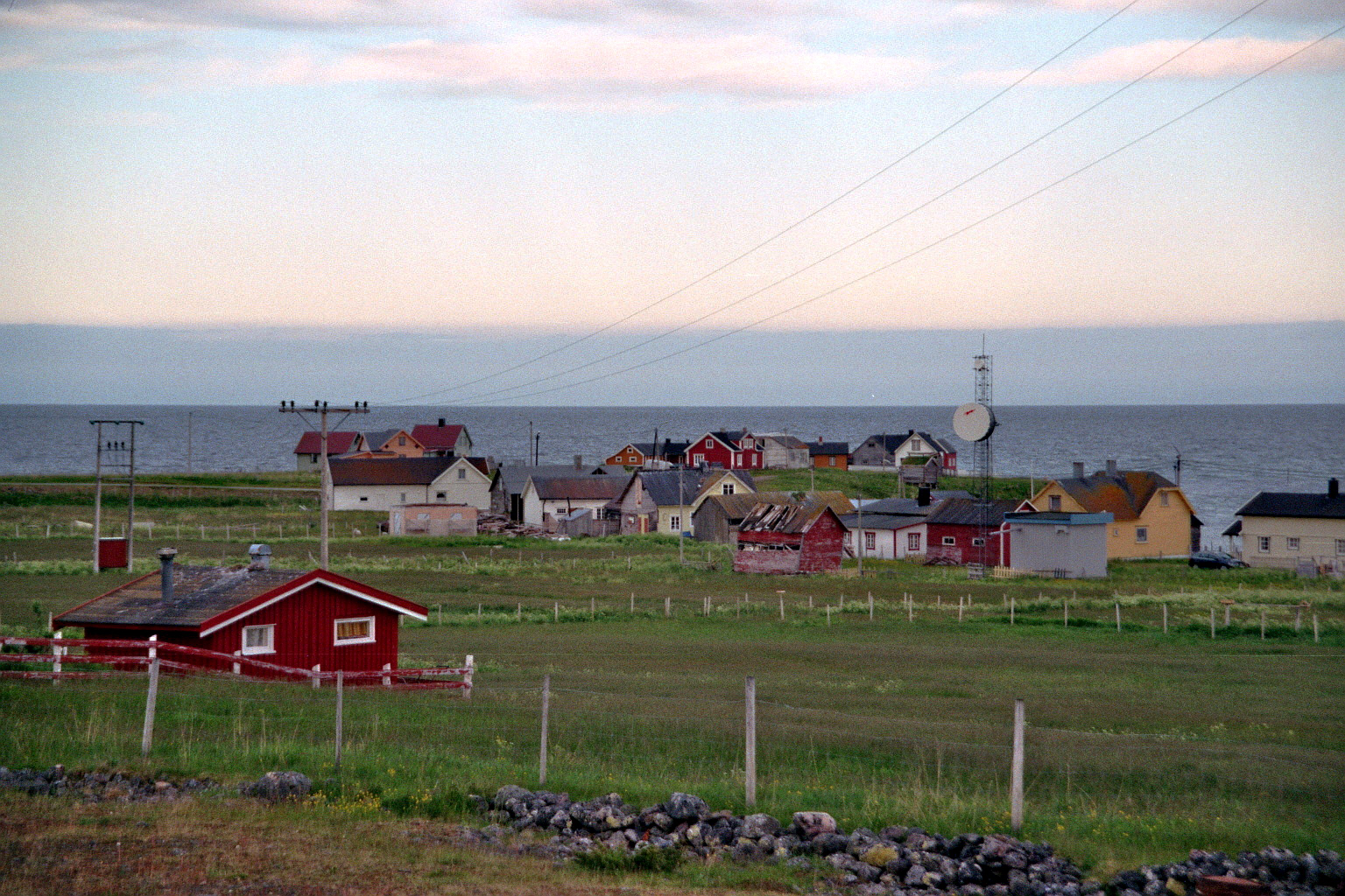 Skallelv as seen from highway E75 on Varangerhalvøya on the northern shore of the Varangerfjord between Vardø and Vadsø in Finnmark in northern Norway.